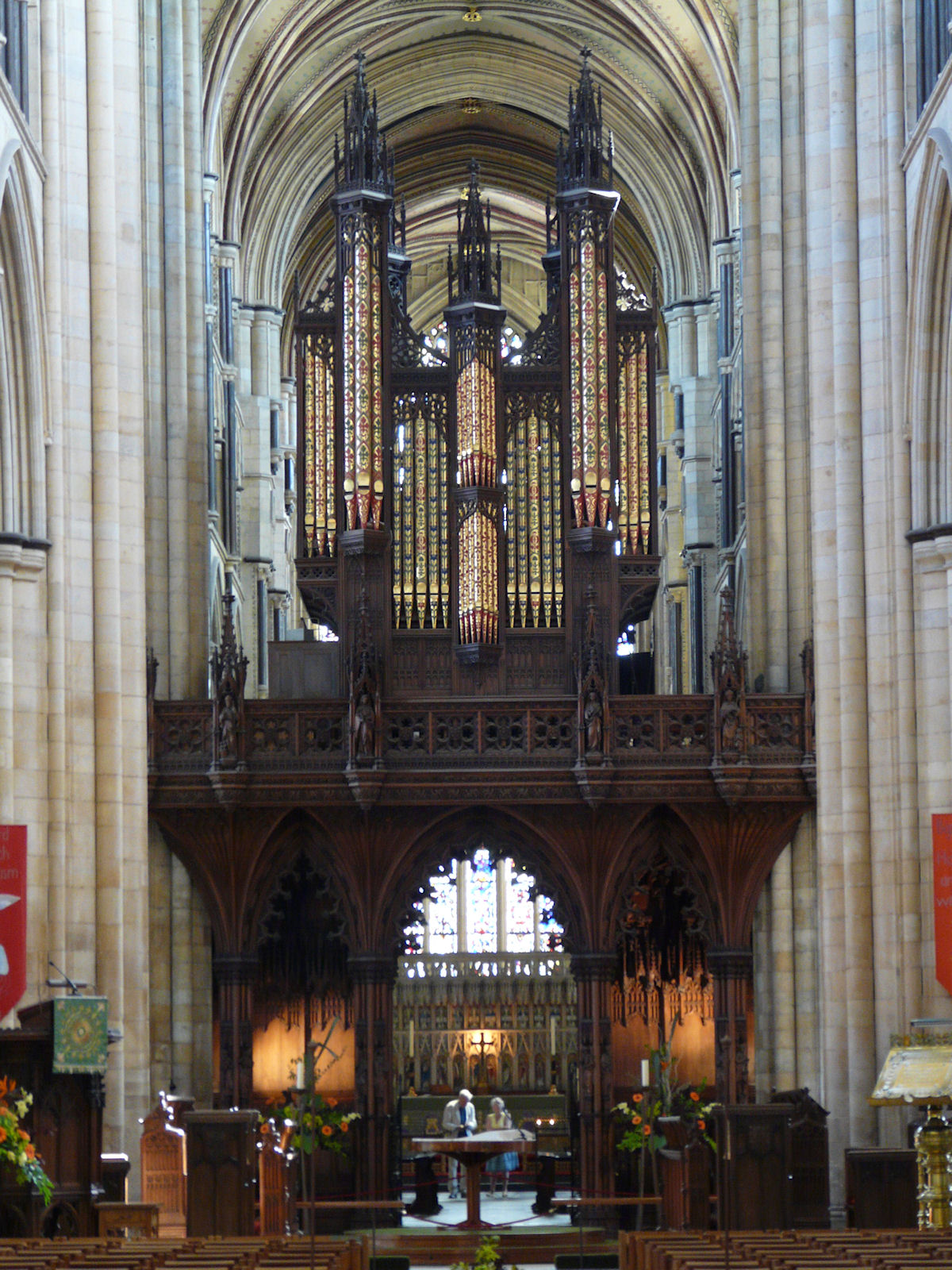 Beverley Minster, Beverley, East Riding of Yorkshire, England.